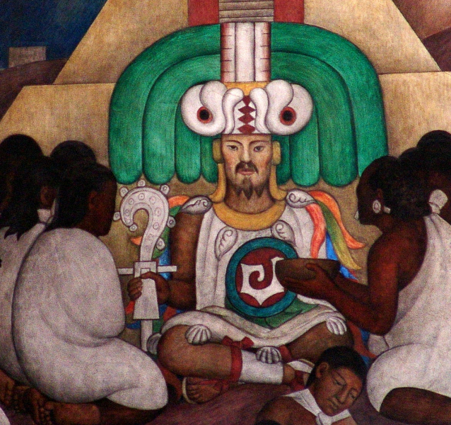 Topiltzin.Fragment of mural by Diego Rivera in the Palacio Nacional (Mexico City)